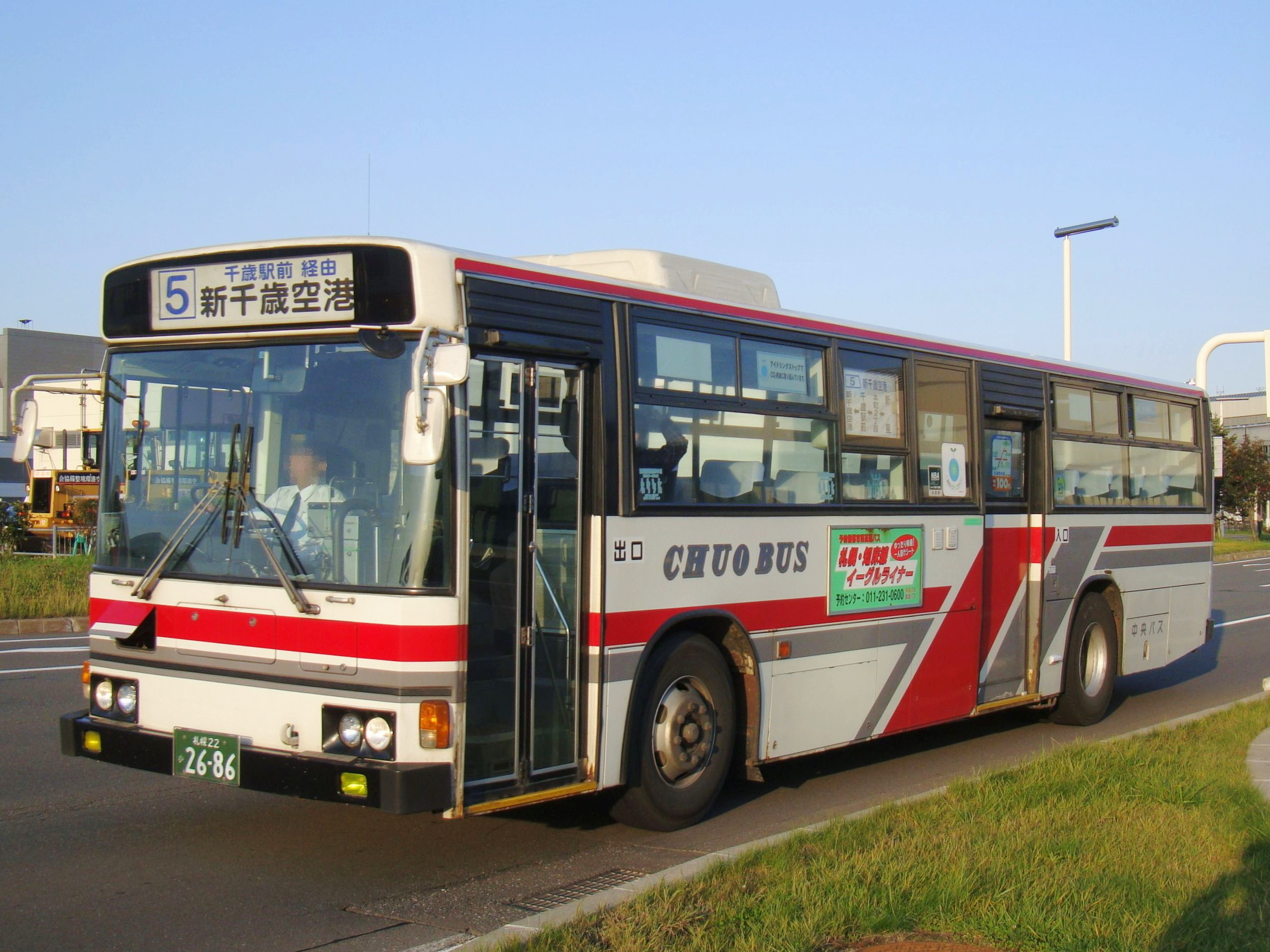 Chitose city line